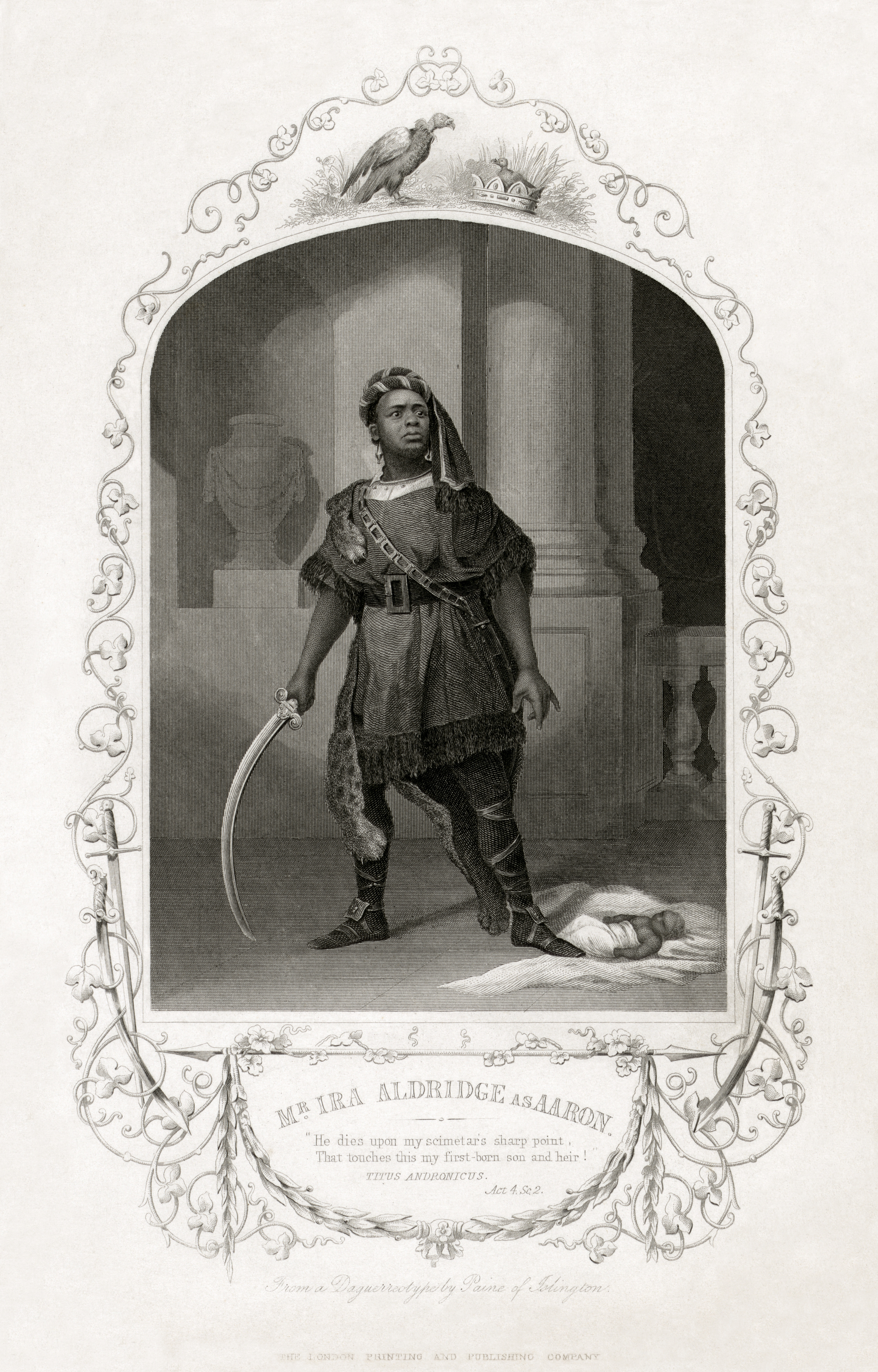 Ira Aldridge as Aaron in Shakespeare's Titus Andronicus. Quote: "He dies upon my scimetar's [sic] sharp point, / That touches this my first-born son and heir!" Act 4, sc. 2.